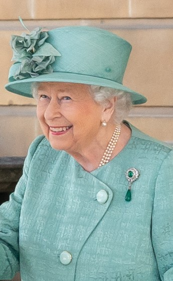 Crop of File:President Trump and First Lady Melania Trump's Trip to England (47996370828).jpg. Queen Elizabeth II during a welcoming ceremony at Buckingham Palace Monday, June 3, 2019, in London. (Official White House Photo by Andrea Hanks)